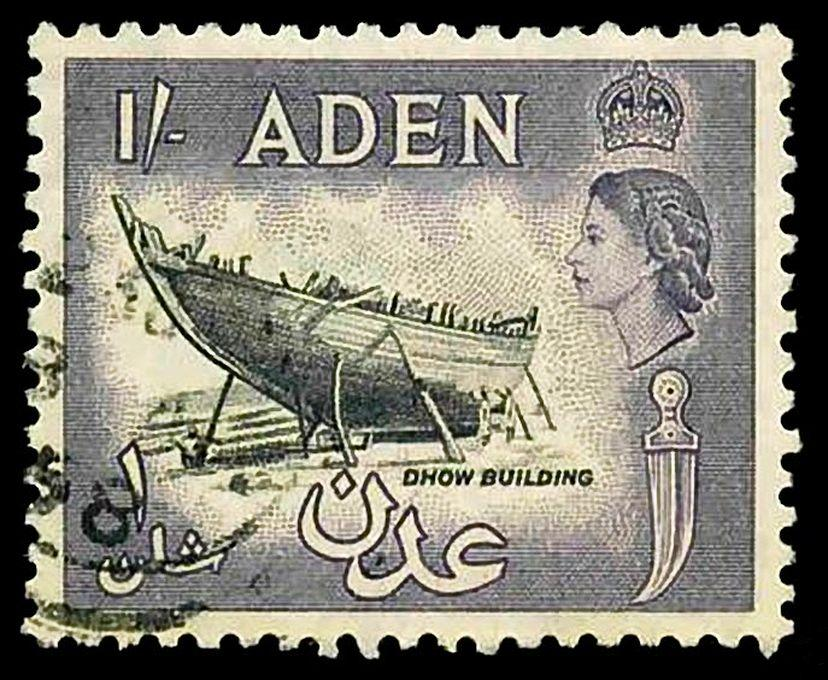 Aden Postage stamp, 1953 issue